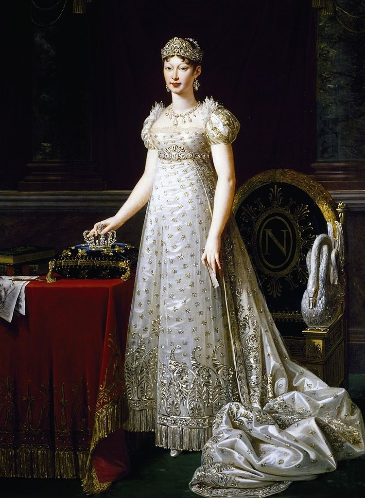 Marie-Louise of Astria, Empress of French